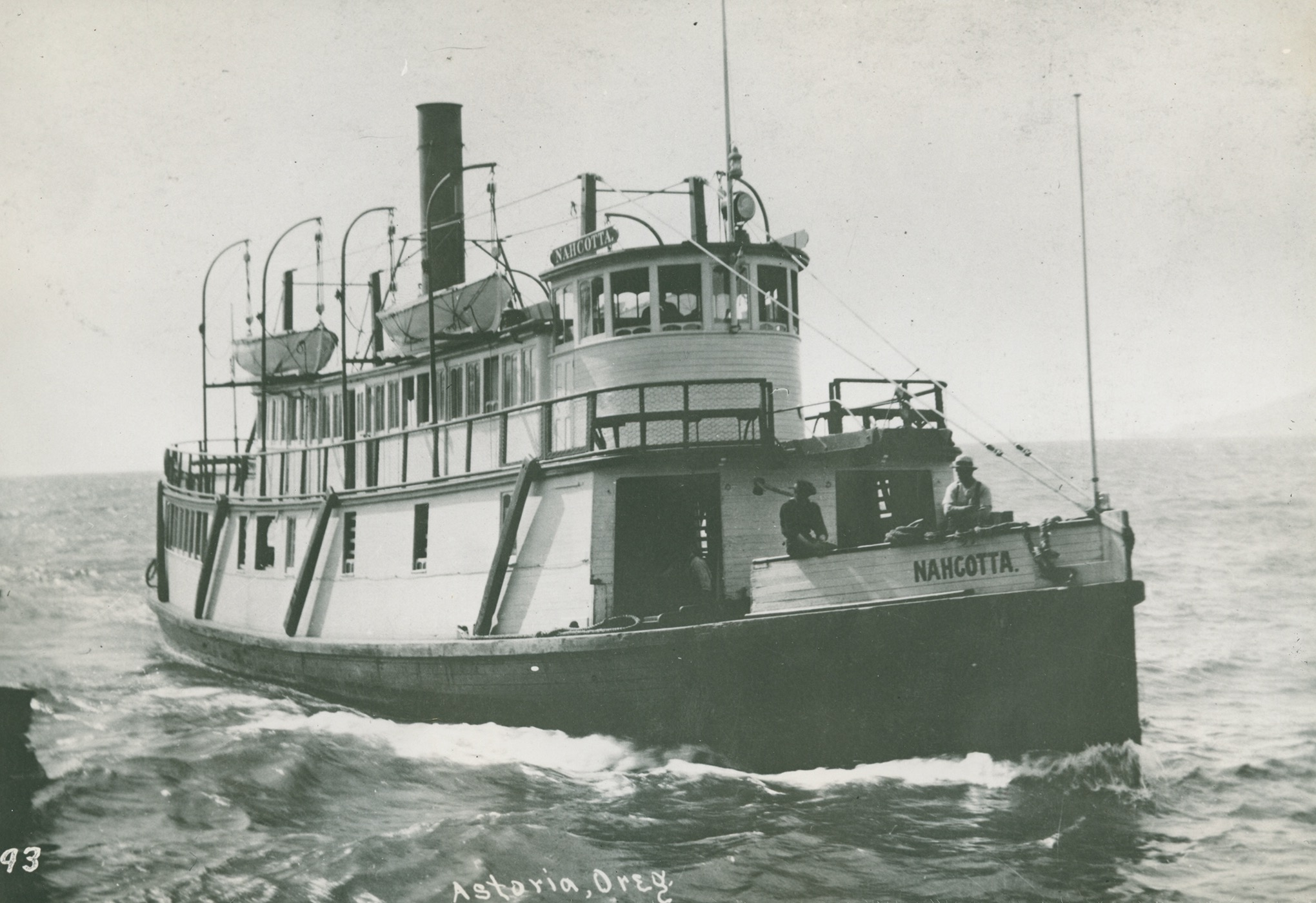 Smaller ship Nahcotta, circa 1910, which ran on the lower Columbia River and Willapa Bay.